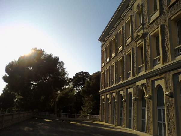 Villa Tamaris, art Center located in la Seyne-sur-Mer.